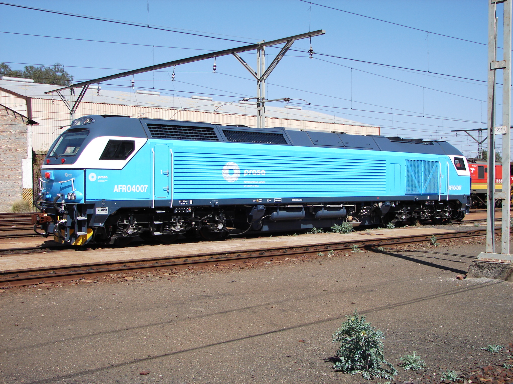 PRASA Class Afro4000 no. 4007, Beaufort West, Western Cape